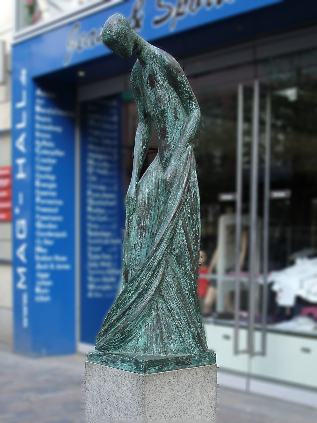 Bronzefigur "Der Fluss" von Dorothea Maroske in Rostock / Sculpture "The river" of Dorothea Maroske in Rostock